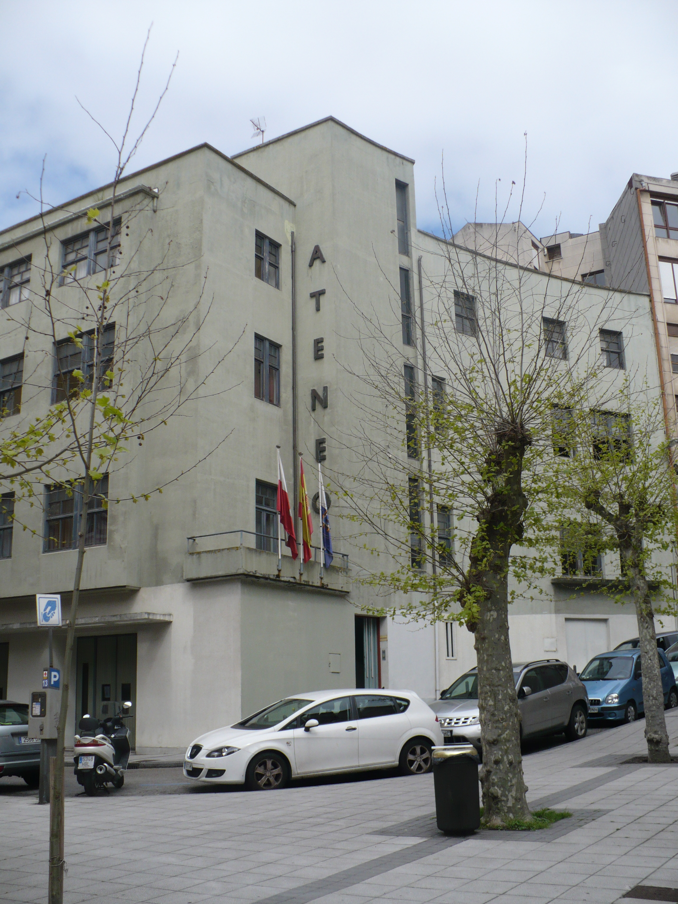 Former headquarters of the Ateneo Popular de Santander (1935), which now houses the Ateneo de Santander since 1995